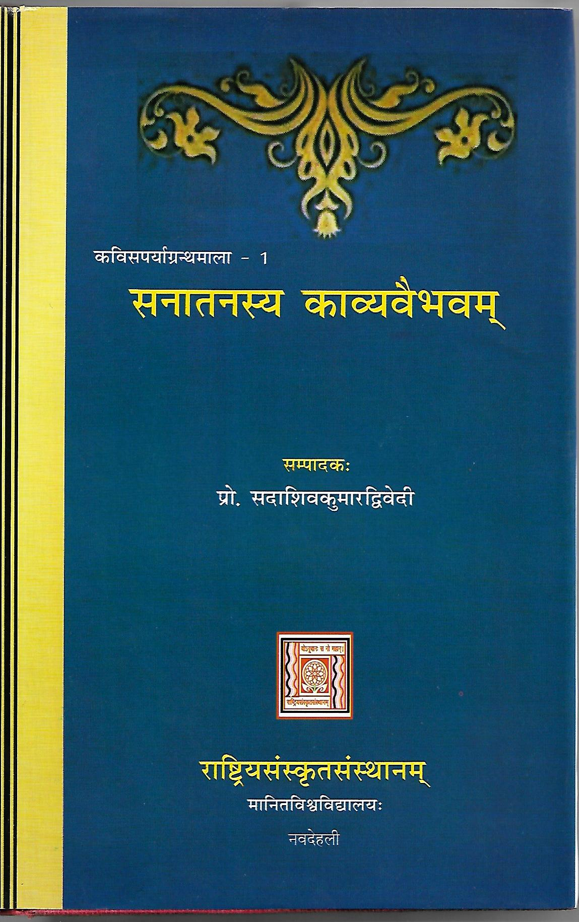 A monograph on Acharya Rewa Prasad Dwivedi's poetic eminence and contributions